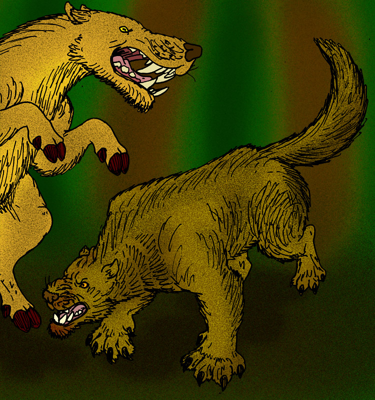 The Late Eocene creodont Sarkastodon mongoliensis being confronted by the giant mesonychid Andrewsarchus mongoliensis, in what is now Mongolia. Andrewsarchus has reared up and is threatening to trample Sarkastodon, perhaps in a dispute over territory or a carcass. (C) Stanton F. Fink